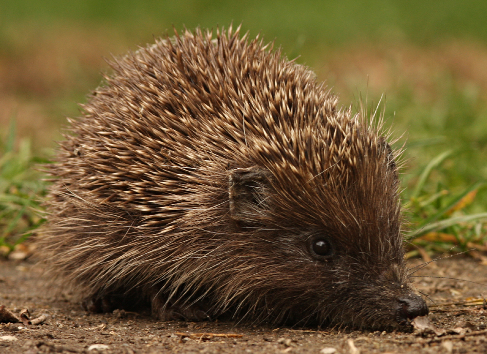 European hedgehog (Erinaceus europaeus), Sarród, Hungary